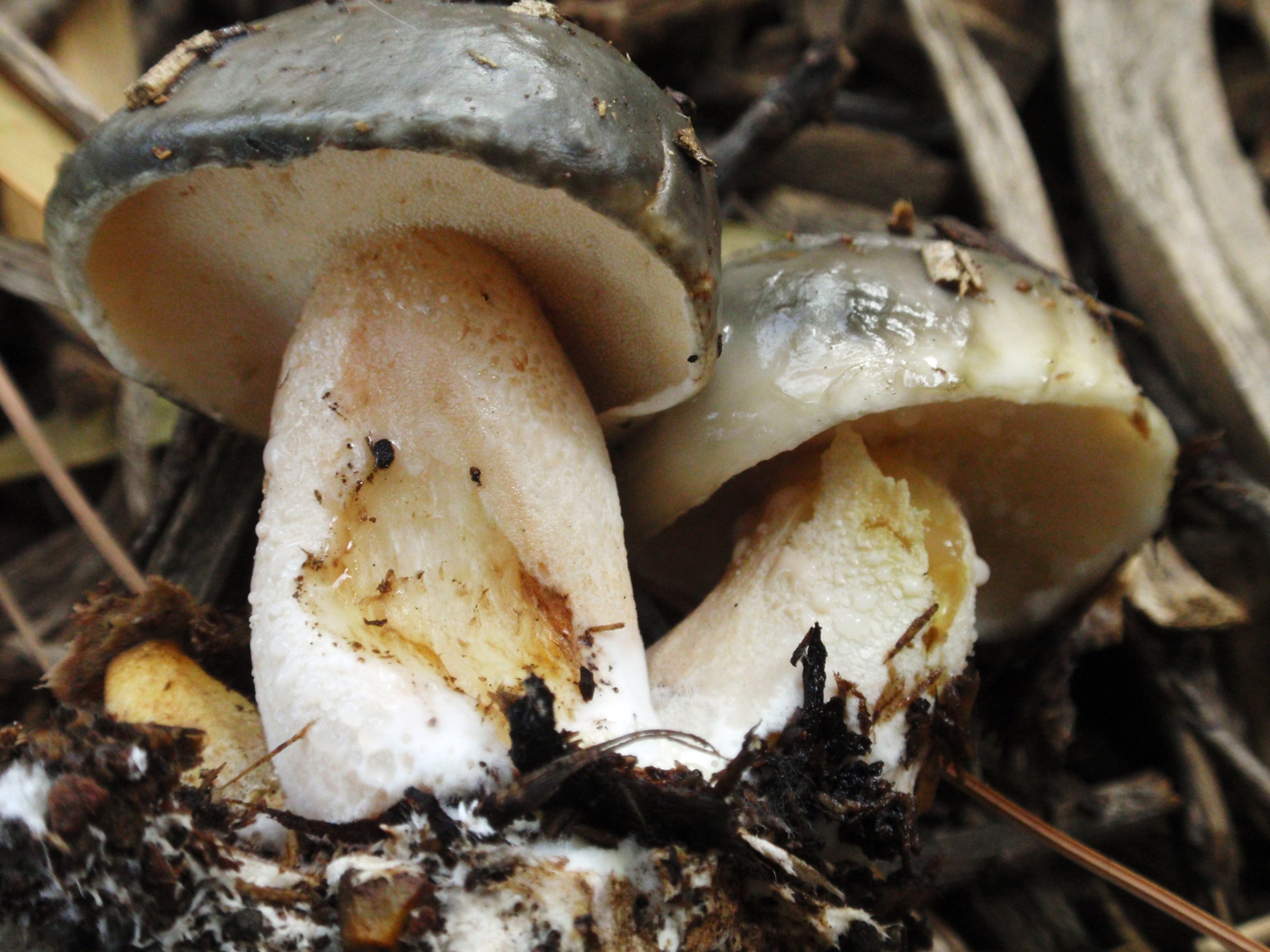 Fruit bodies of the bolete fungus Suillus pungens Thiers & A.H. Sm. Specimens photographed in Foster City, California, USA.